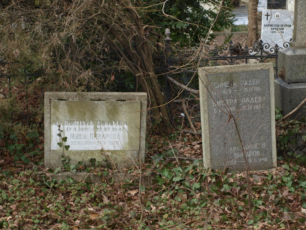 Tombstones of Simeon Radev and Viktoria Vinarova